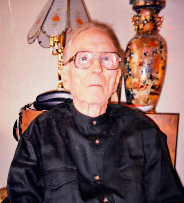 Headshot of Anatoliy Shapiro shortly before his death